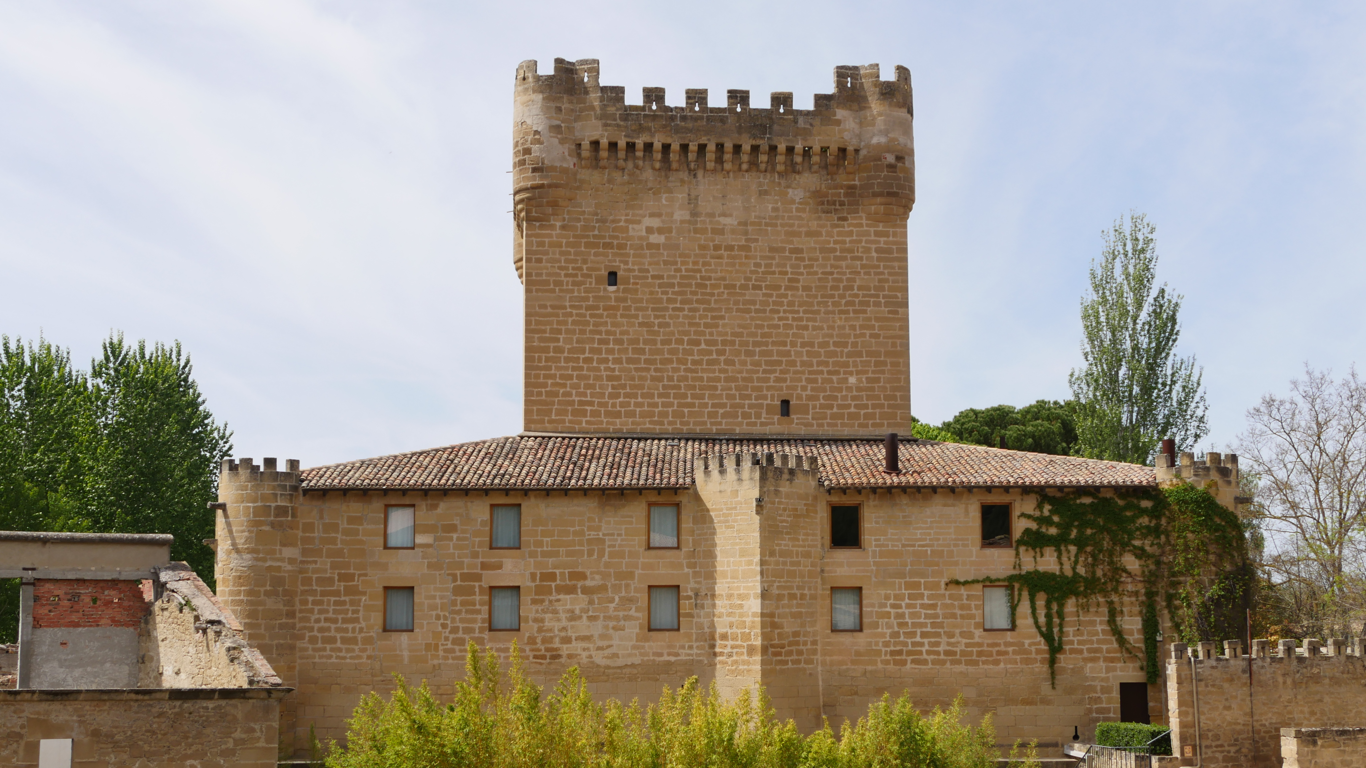 East view of the Castle of Cuzcurrita de Río Tirón (La Rioja, Spain).